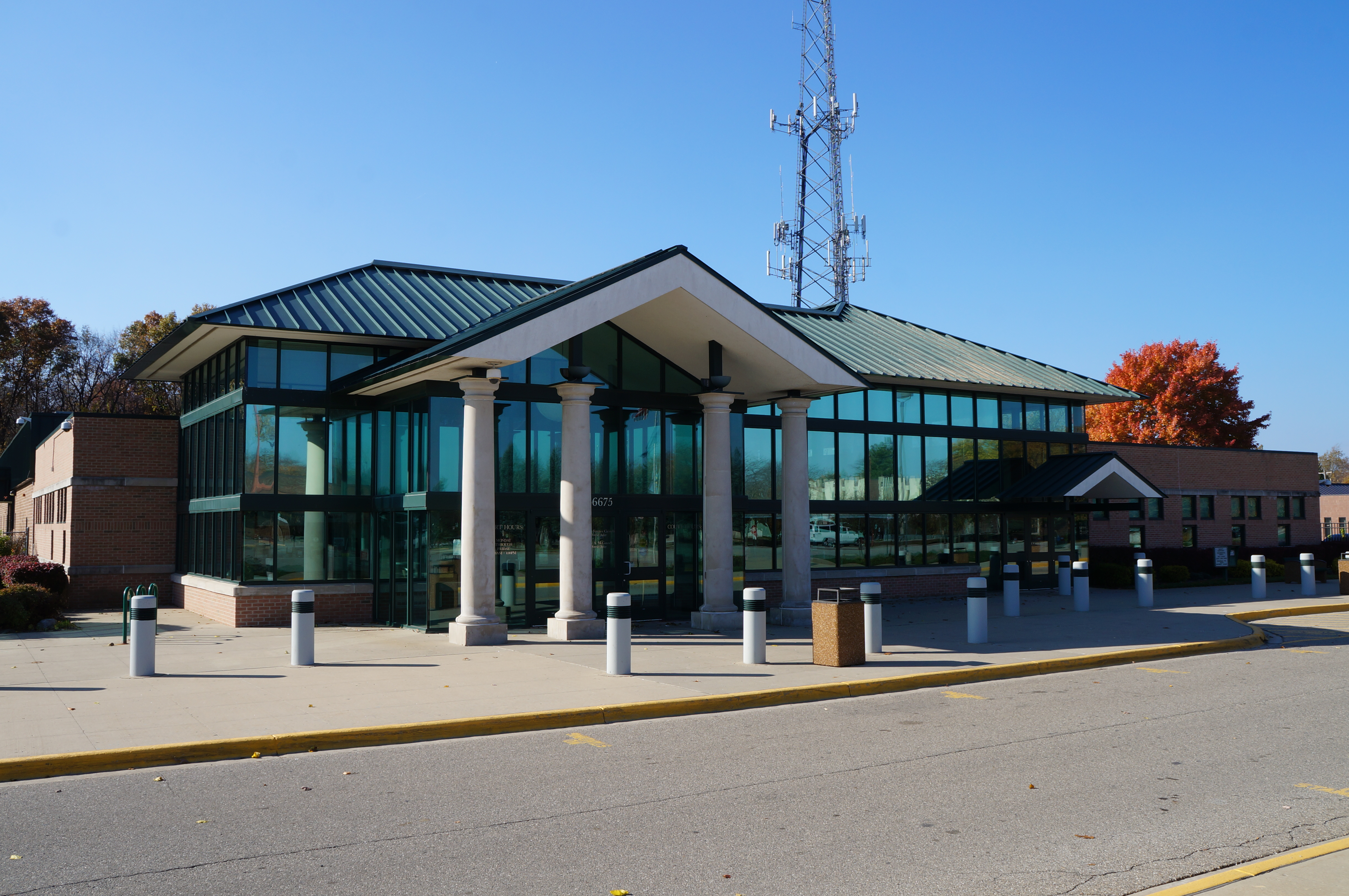 The 18th District Court of Wayne County, Michigan